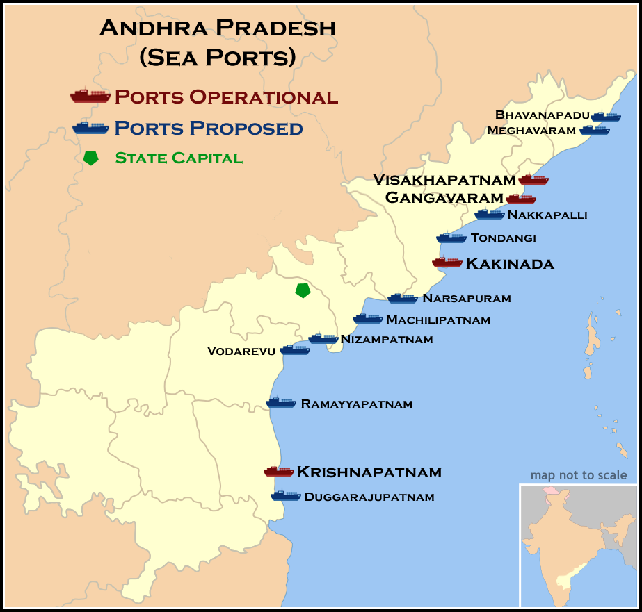 Seaports Map of Andhra Pradesh in 2015